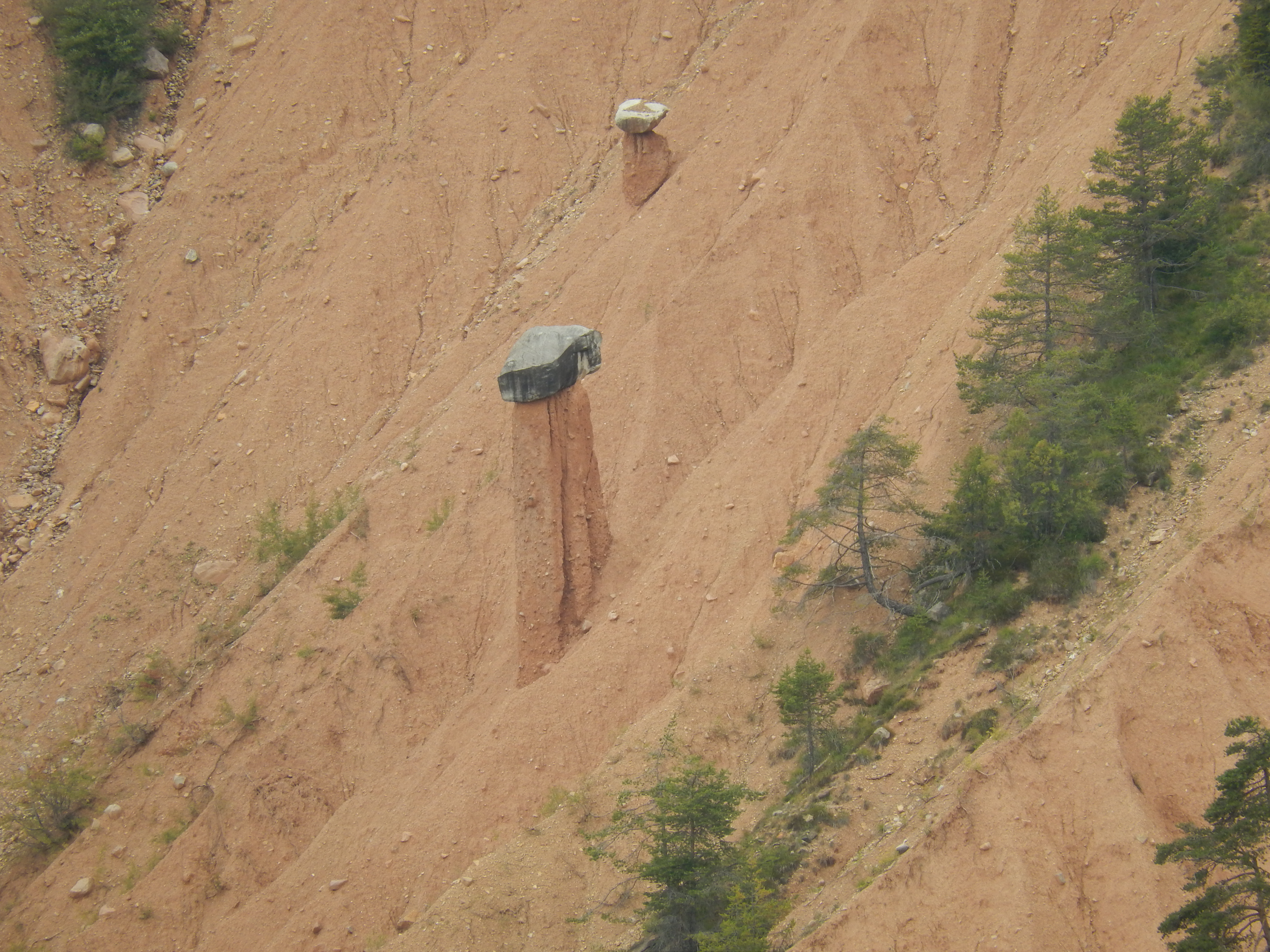 Fairy chimneys of Nobls near Bolzano, Italy.